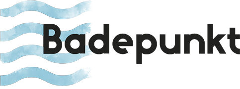 Flag for nordic bathing point. Indicating good bathing beach and other nature or leisure activities